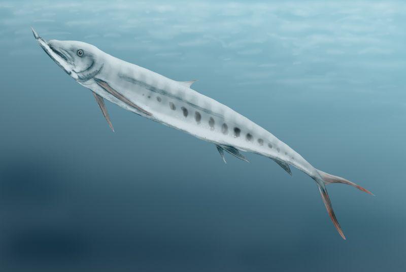 Ecological life restoration of Saurodon leanus, the Late Cretaceous of Kansas.